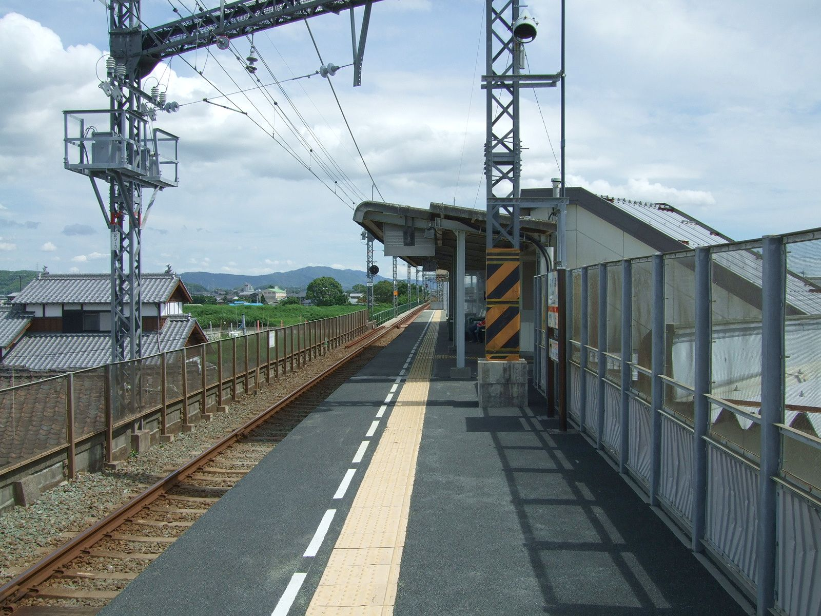 Nishitetsu Nakashima Station, Nishitetsu Tenjin Omuta Line.